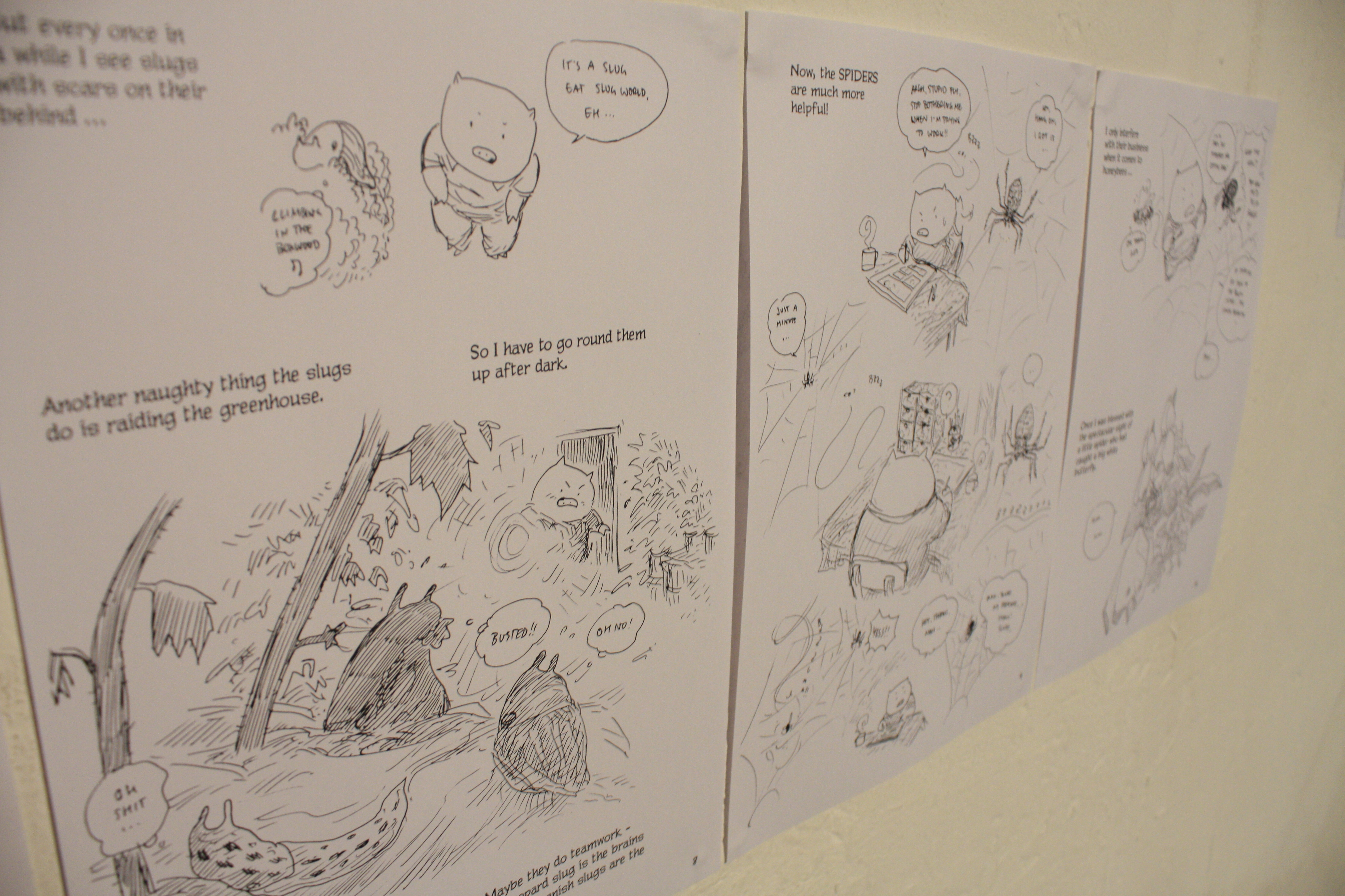 Vernissage 24h comics marathon Berlin.